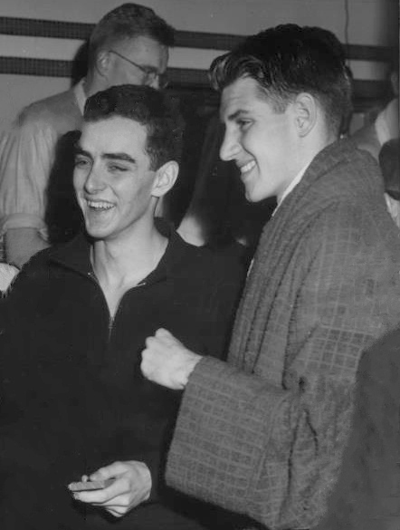 1950 Press Photo Yale Athletic Assn: James McLane and Jack Taylor